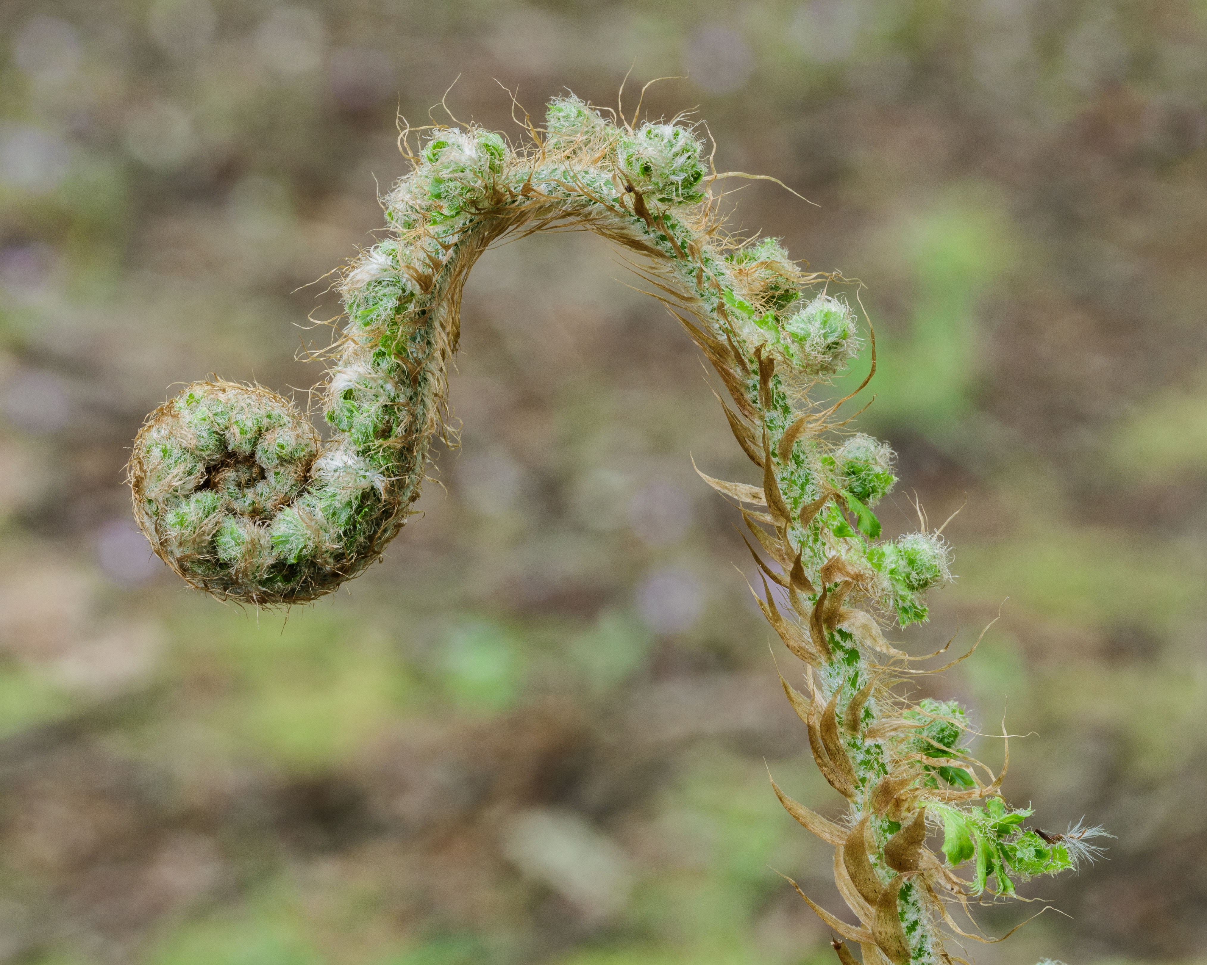 Polystichum setiferum 'Cristato Pinnulum', (Soft shield-fern) Beautiful new leaf from this rare little fern. (Height: 30 cm).